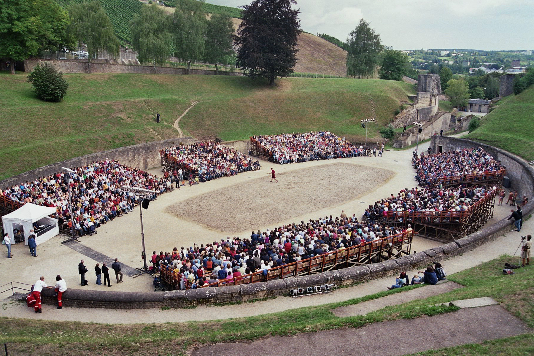 Amphitheater Trier used for the Roman festival Brot & Spiele